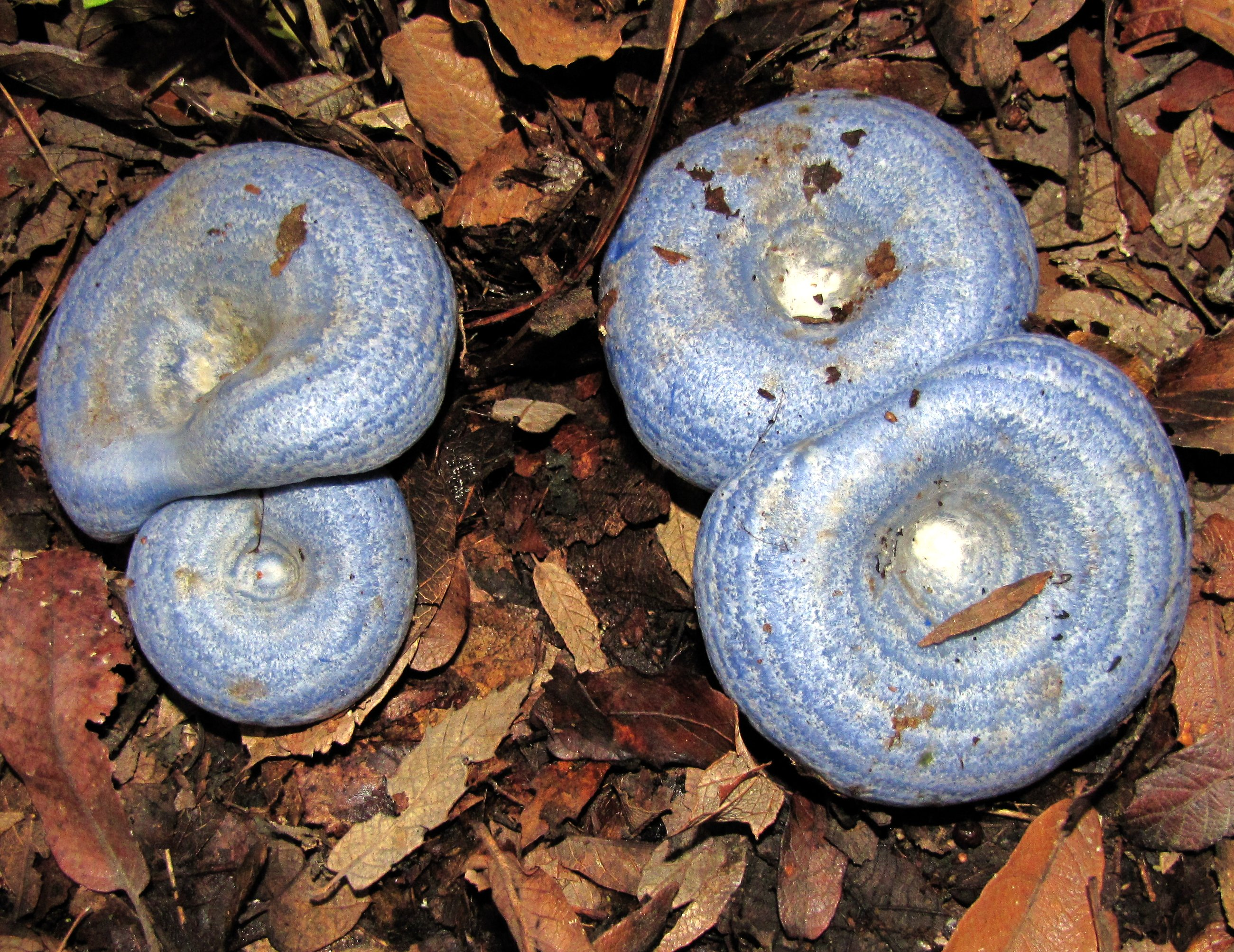 Top view of the edible mushroom Lactarius indigo (Schwein.) Fr. Photographed in Guadalajara, Jalisco, Mexico. "Notes: We ate these for dinner on a pizza."